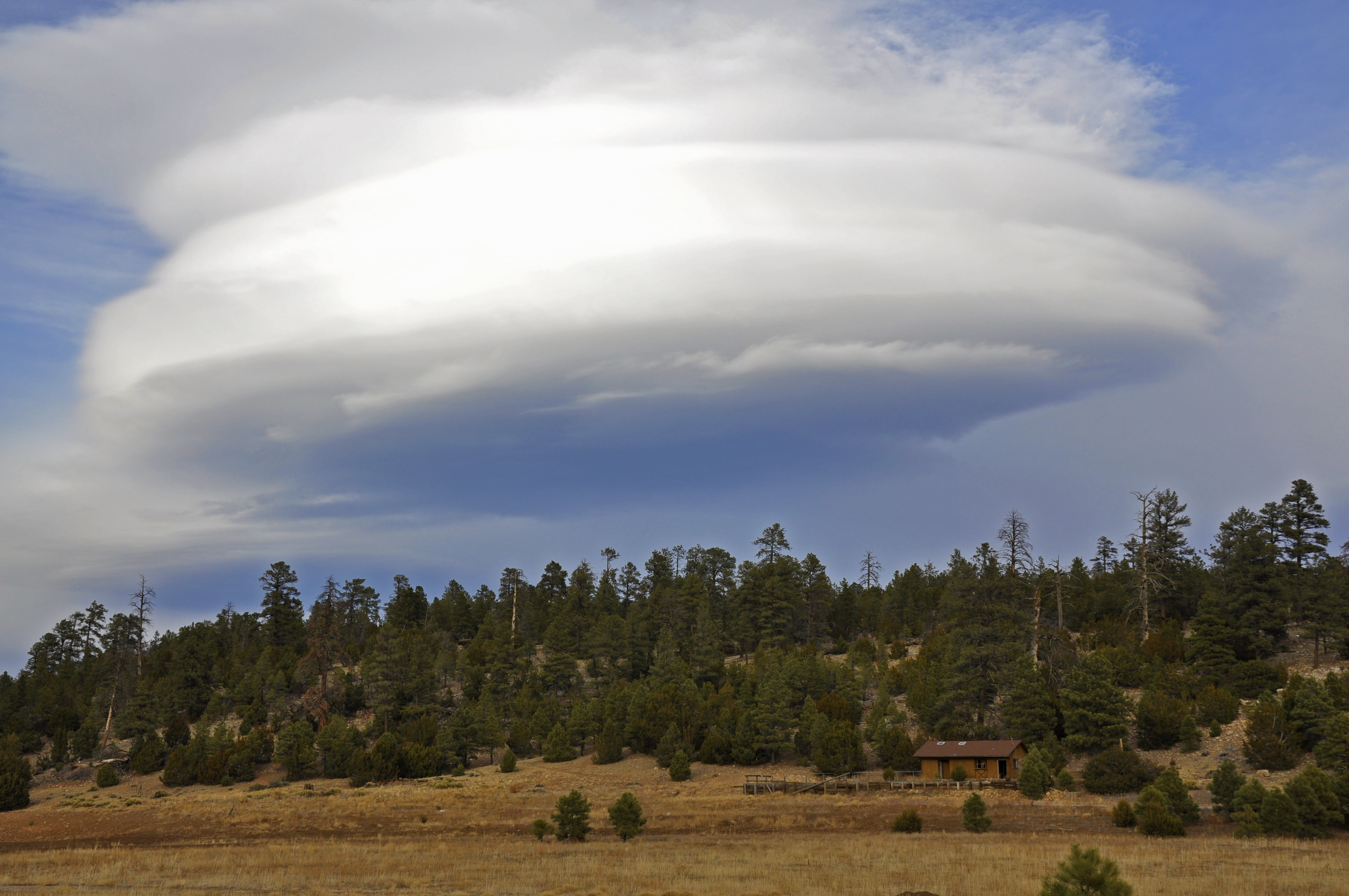 A large circular cloud (Altocumulus lenticularis) forms over Campbell Mesa, which has numerous trails to mountain bike and hike on. For more information on those trails, visit Taken 12-6-09 by Brady Smith. Credit: USDA Forest Service, Coconino National Forest.